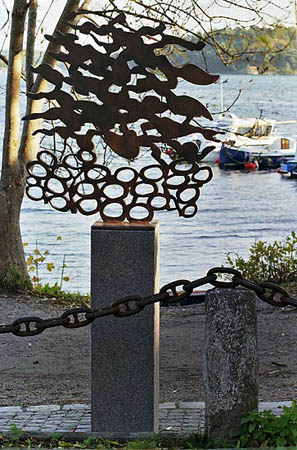 A small memorial monument of about 6300 Estonian boat refugees that came to Dalarö in Sweden during the 40s.